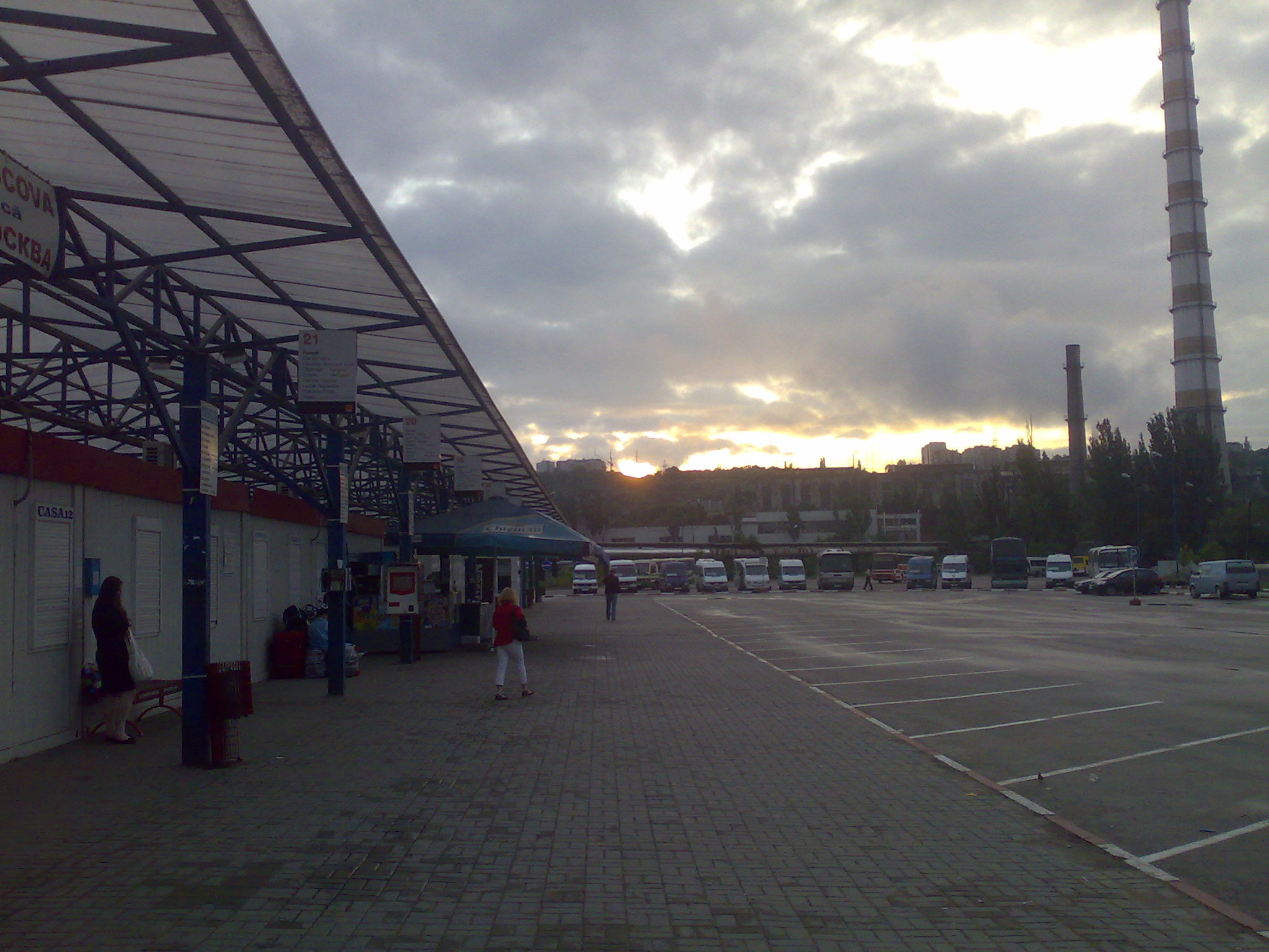 Gara auto De Nord Chisinau, Moldova. Platforms